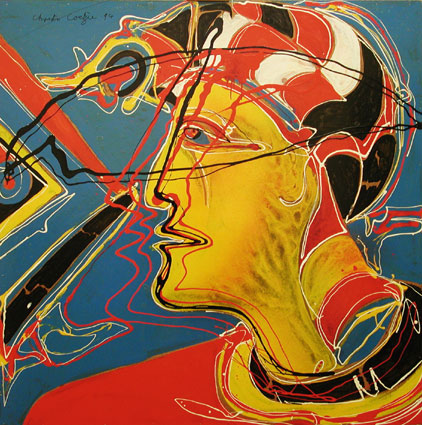 The Perfect One by Christo Coetzee, 1994, 122 x 122cm, oil on panel.